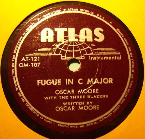 OSCAR MOORE with The Three Blazers - Fugue in C Major/Melancholy Madeline (Atlas OM-107)